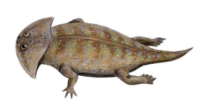 Gerrothorax pulcherrimus, a temnospondyli from the Late Triassic of Germany, pencil drawing